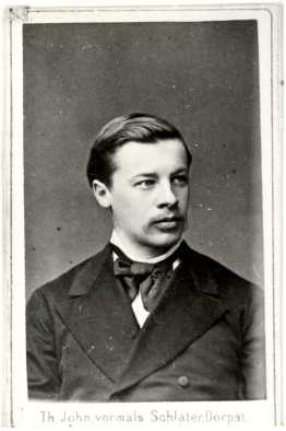 Karl Gottfried Constantin Dehio